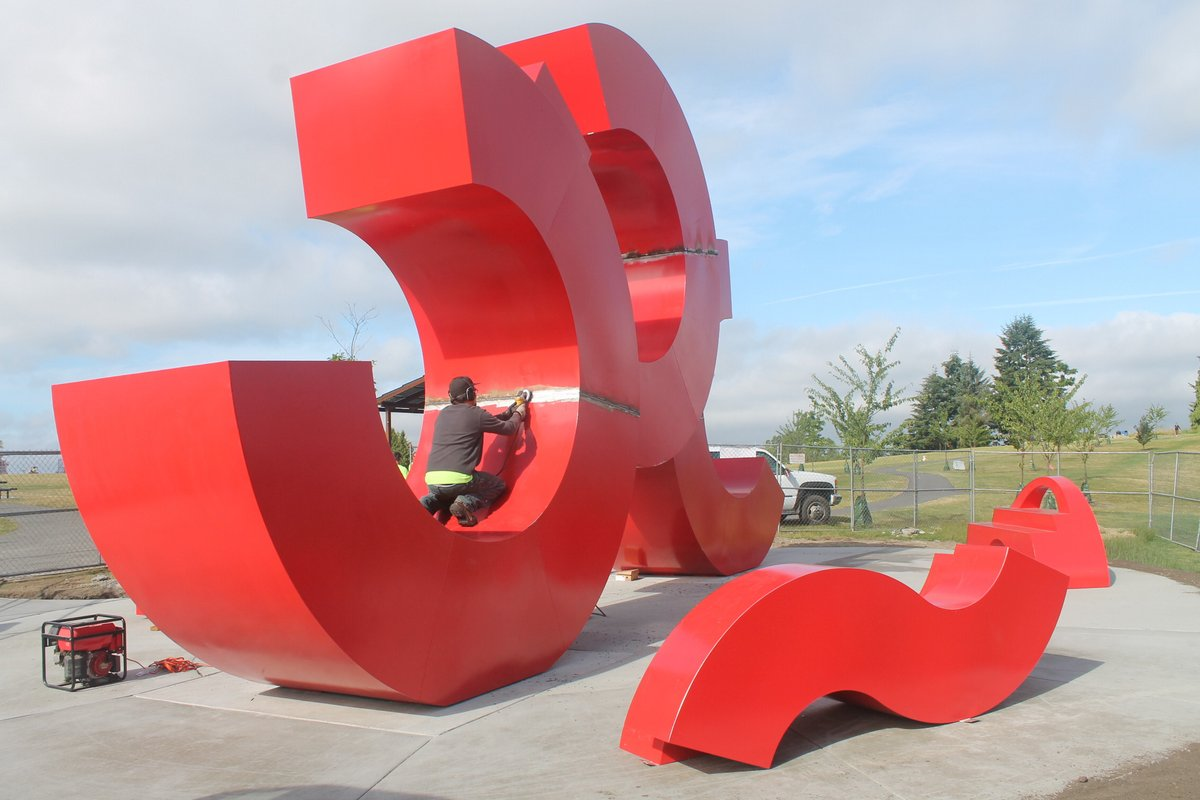 Developed by Oregon artist CJ Rench 'Skate Space' sculpture Jefferson Park, Seattle, WA. This sculpture was designed for skateboarding